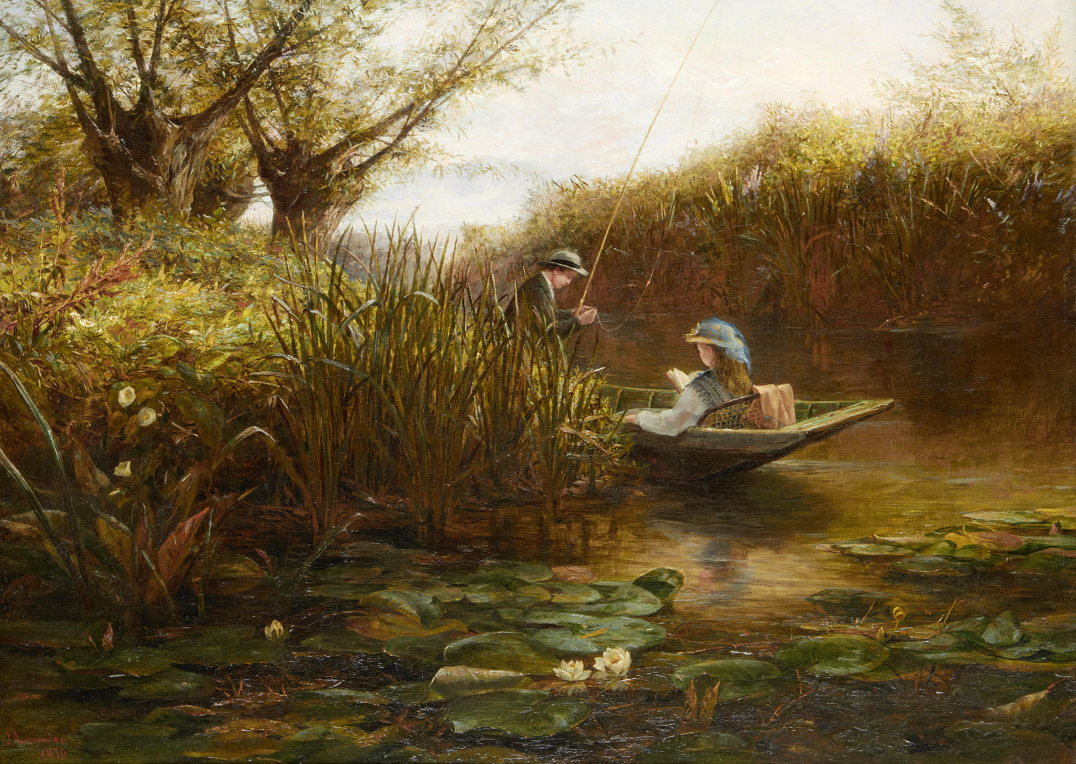 Where the Water Lilies Grow; signed and dated 'J. Aumonier' (lower left), inscribed with title, artist's name and address (on old label verso); oil on canvas; 50.5 x 70.5 cm